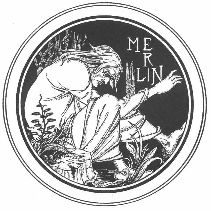 Merlin, from Sir Thomas Malory.The Birth Life and Acts of King Arthur, of His Noble Knights of the Round Table, Their Marvellous Enquests and Adventures, the Achieving of the San Greal and in the End Le Morte Darthur with the Dolourous Death and Departing out of This World of Them All. London: Dent, 1893.